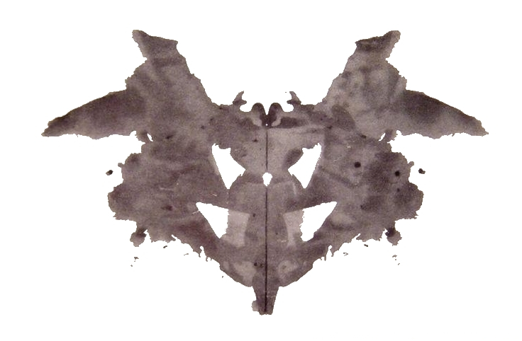 The first blot of the Rorschach inkblot test